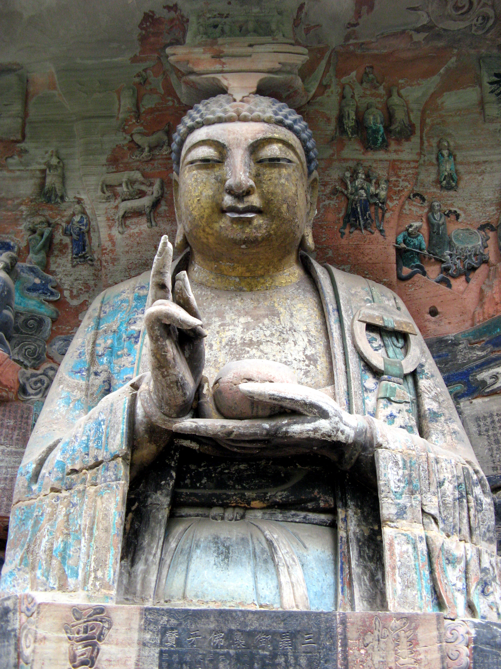 Shakyamuni Repays His Parents' Kindness. Relief #18, Baodingshan, Dazu The colossal statue of Shakyamuni, seen here, overlooks a relief that illustrates twelve instances of Buddhist filial piety, taken from various sutras and jatakas. Its intent, like the relief #16 illustrating parental kindness, is both moralistic (to illustrate the benefits of filial piety) and propagandistic (to prove that Chinese Buddhists can be as filial as Chinese Confucians).